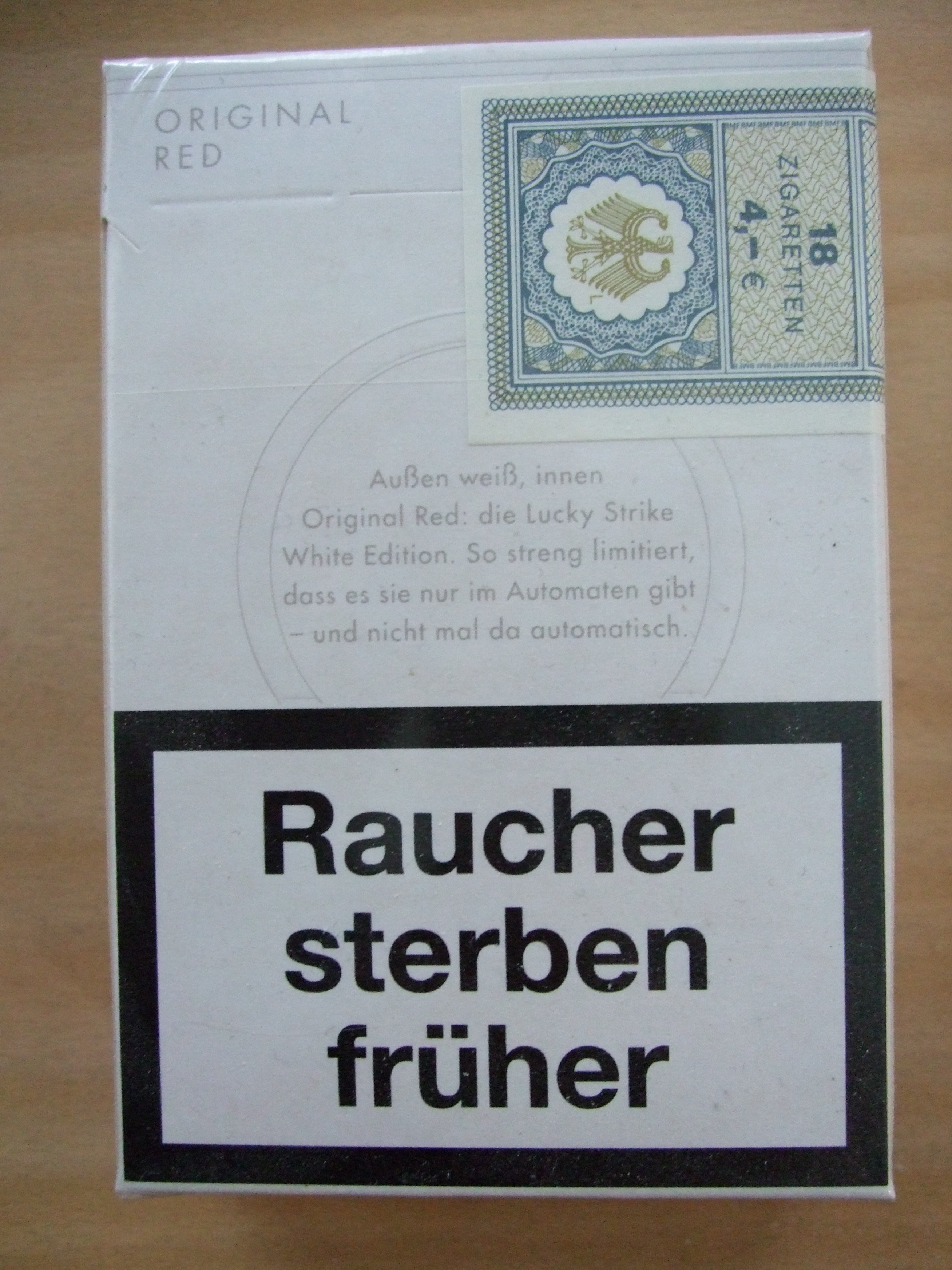 Rear view of a white packet of Lucky Strike cigarettes from a vending machine in Germany